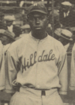 Judy Johnson at the 1924 Colored World Series. LOC states here that there are no restrictions on use of this image, therefore it is PD. This file has been extracted from another file: 1924 Negro League World Series.jpg